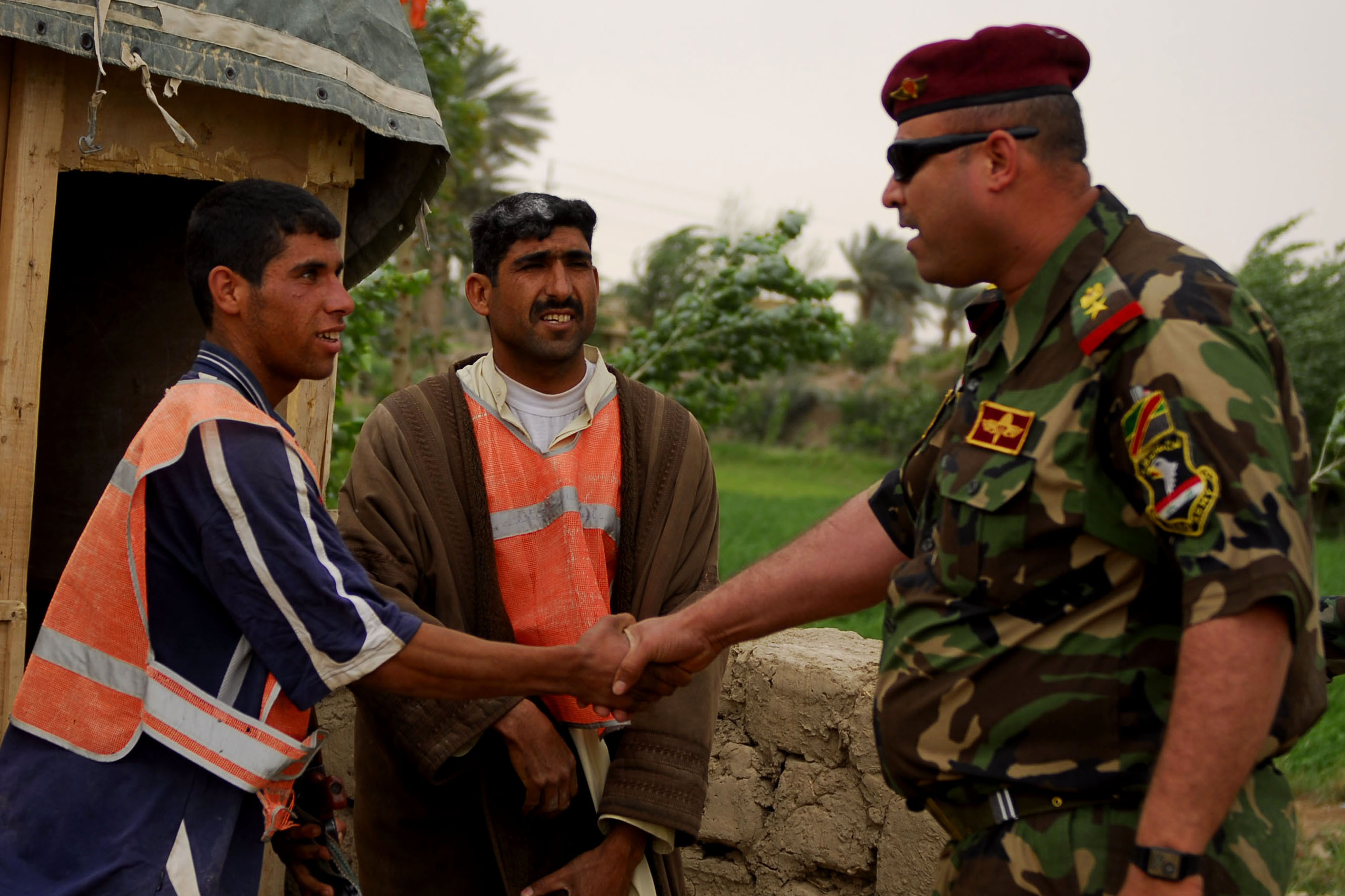 Local Sons of Iraq (left), greet Lt. Col. Ayoob, commander, Commando Battalion, 17th Iraqi Army Brigade, during Operation Al Sakar in the Owesat area, April 12. The Iraqi army and soldiers from the 1st Battalion, 6th Infantry Regiment conducted a counter insurgency operation in the Owesat area to clear the area of insurgents, weapons and explosives caches. Both forces goal was to hold and secure the Owesat area and deny insurgents the ability to use the area to launch attacks in the streets of Baghdad.